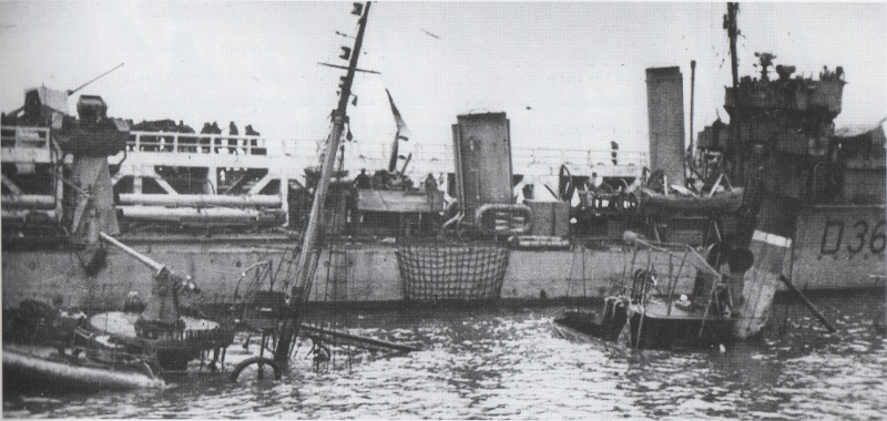 British V class destroyer at the pier off Dunkirk during Operation Dynamo. A sunken ship is in the foreground.